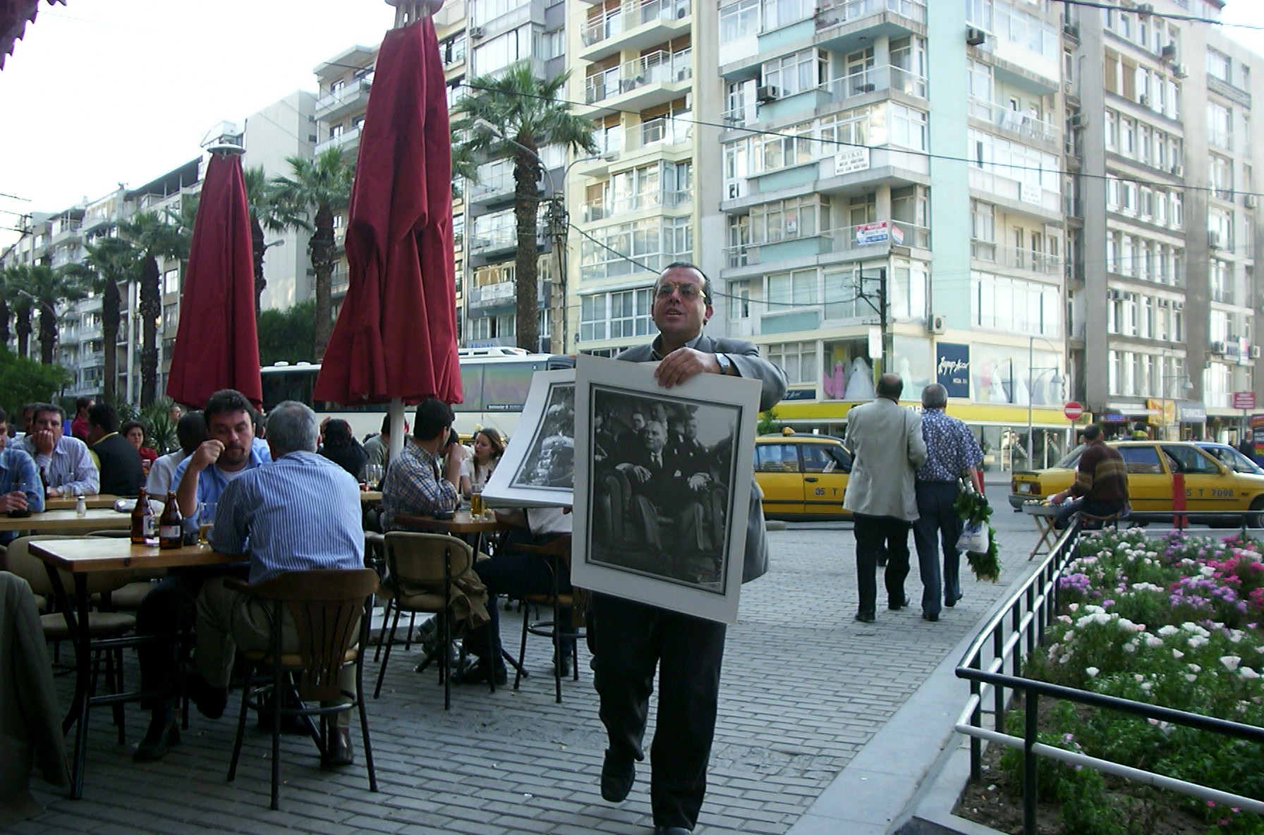 Seller de d'Ataturk portraits à Alsancak, İzmir, Turquie.